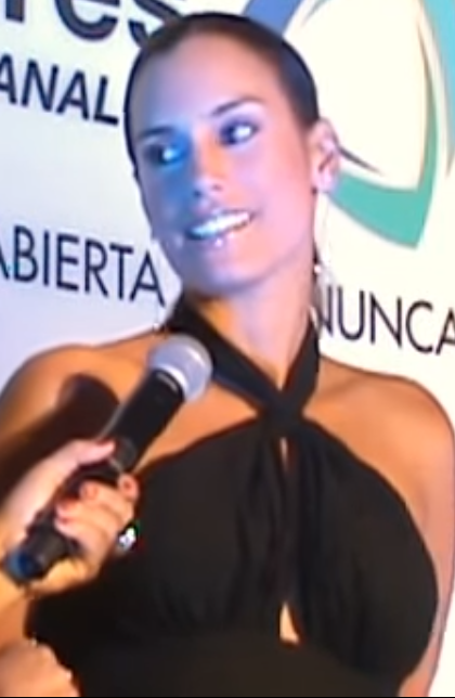 Alejandra Sandoval in 2013